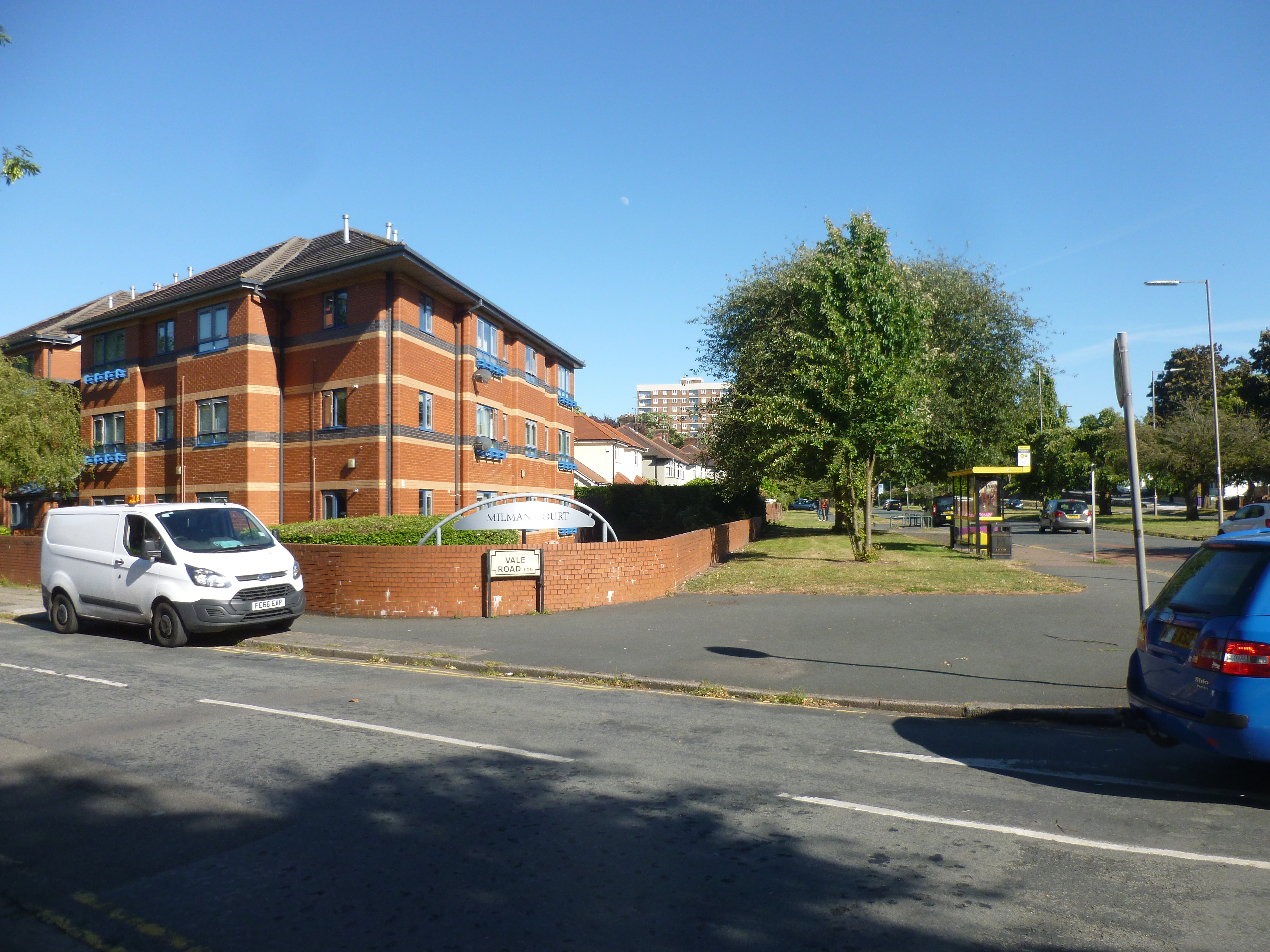 Liverpool. Vale Road and Menlove Av. In the place where it's the first tree is Mendips (251 Menlove Avenue), John Lennon's childhood home.